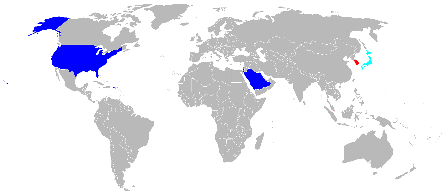 Operators of the F-15 Eagle and F-15E Strike Eagle. cyan, F-15 only; red, F-15E only, dark blue, both.